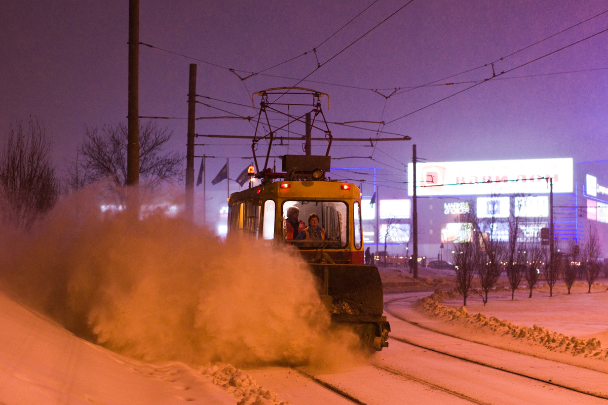 Working of tramway snowbroom GS-4 #0211 in Moscow. Prospekt Mira.